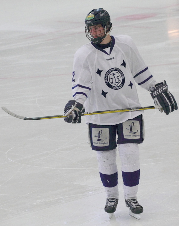 Filip Forsberg 2010